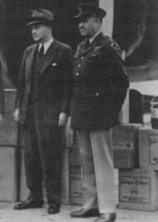 From the book Aviation in the U.S. Army, 1919-1939, published in 1987 by the U.S. Air Force, written by Dr. Maurer Maurer for the United States Air Force Historical Research Center.